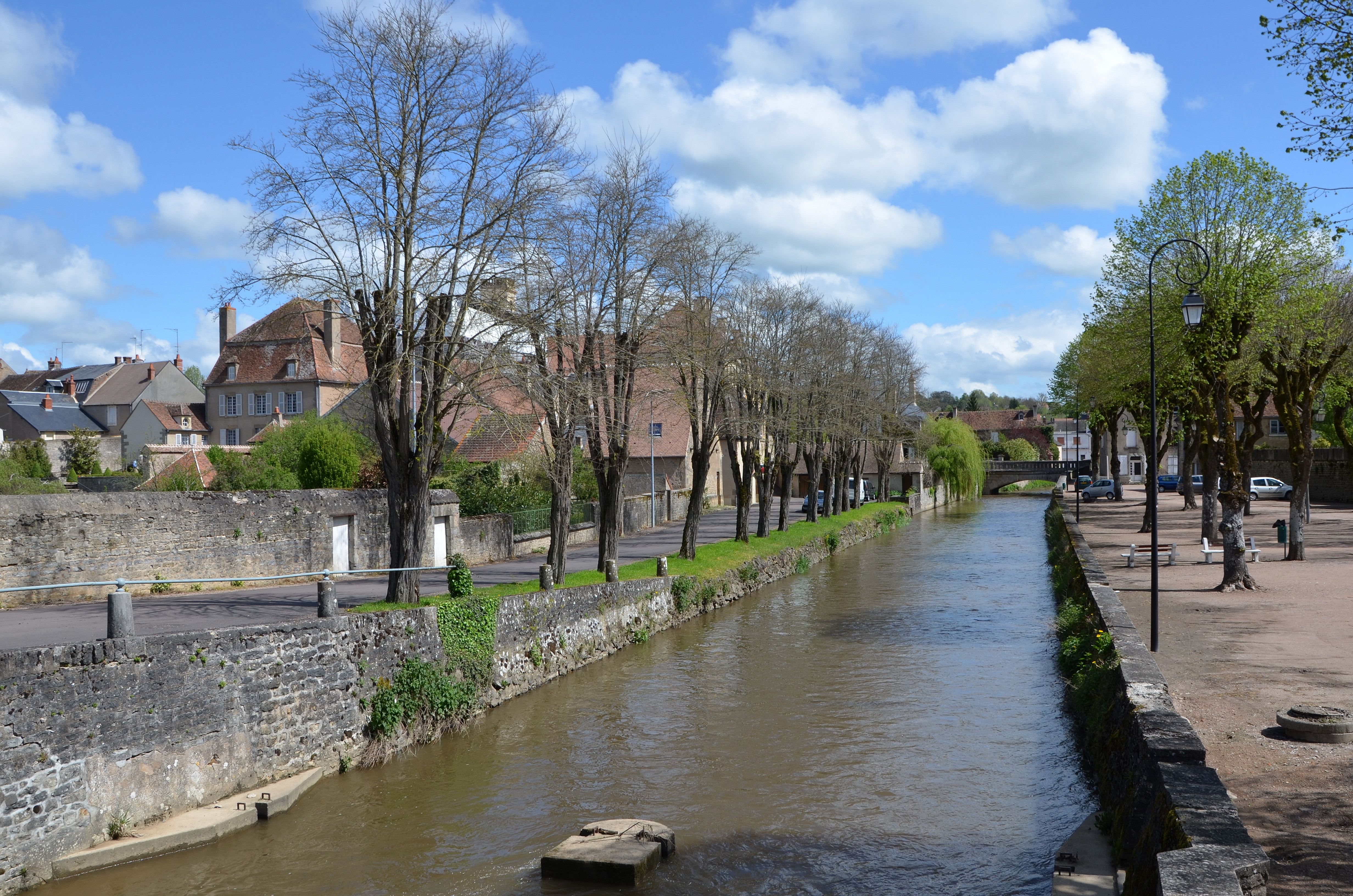 The river Anguison in Corbigny, Nièvre, France